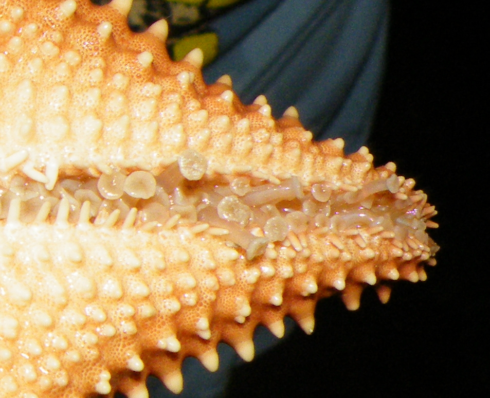 Tube feet of a large starfish caught in Belize